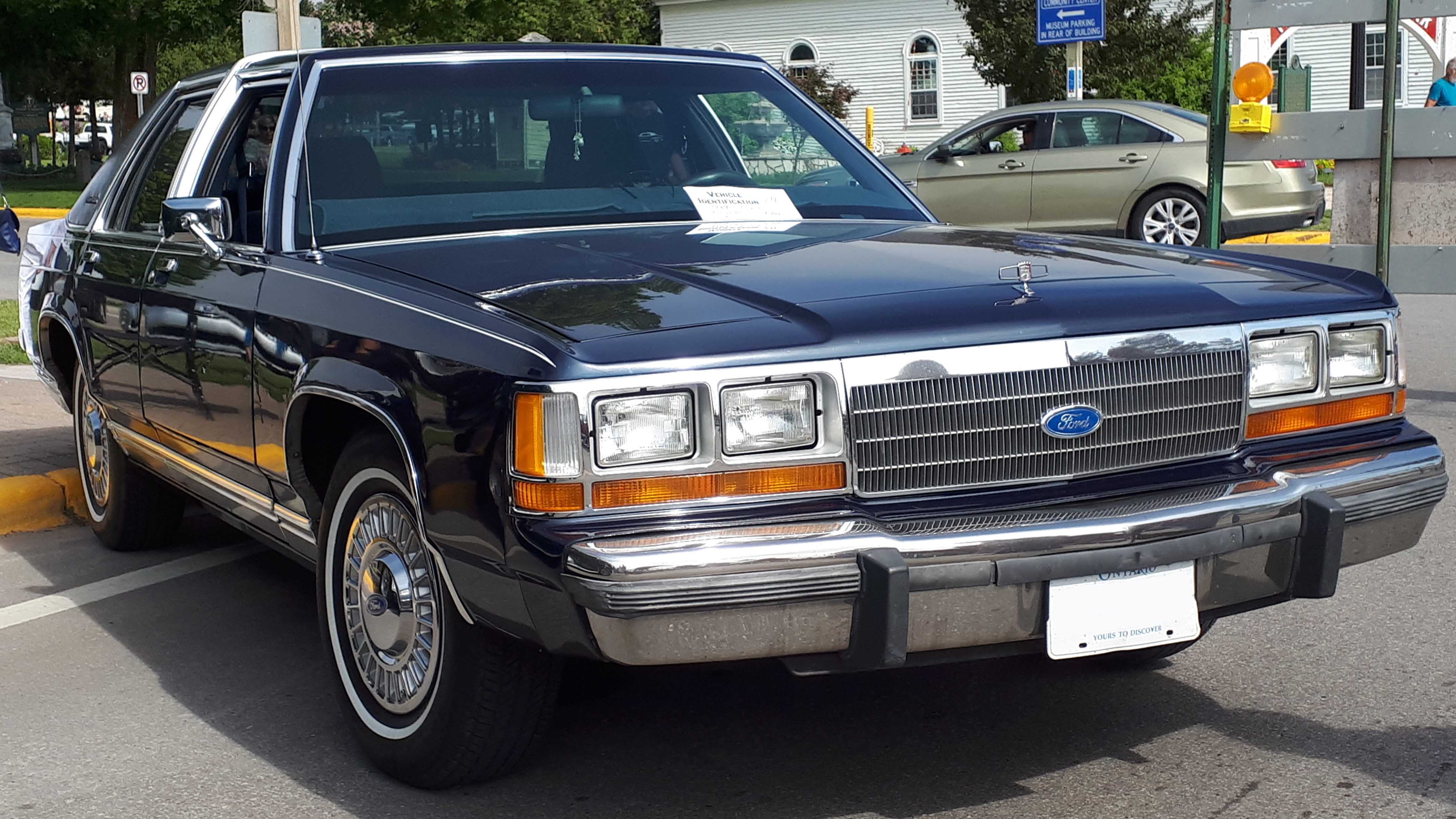 1989 Ford LTD Crown Victoria photographed in St. Ignace, Michigan at the annual St. Ignace car show weekend.